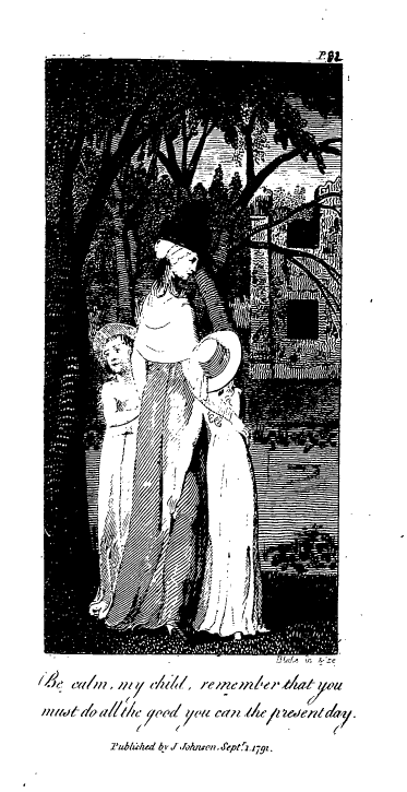 Illustration by William Blake for Mary Wollstonecraft's Original Stories (1791). Caption reads: "Be calm, my child; remember that you must do all the good you can the present day."